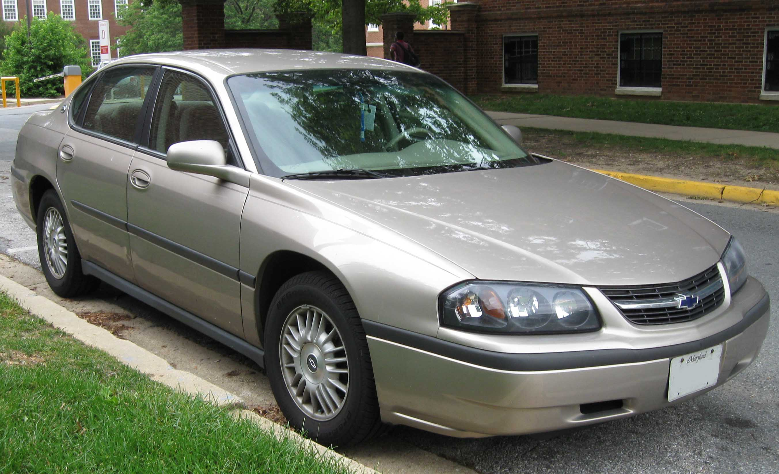 2000-2005 Chevrolet Impala photographed in College Park, Maryland, USA.